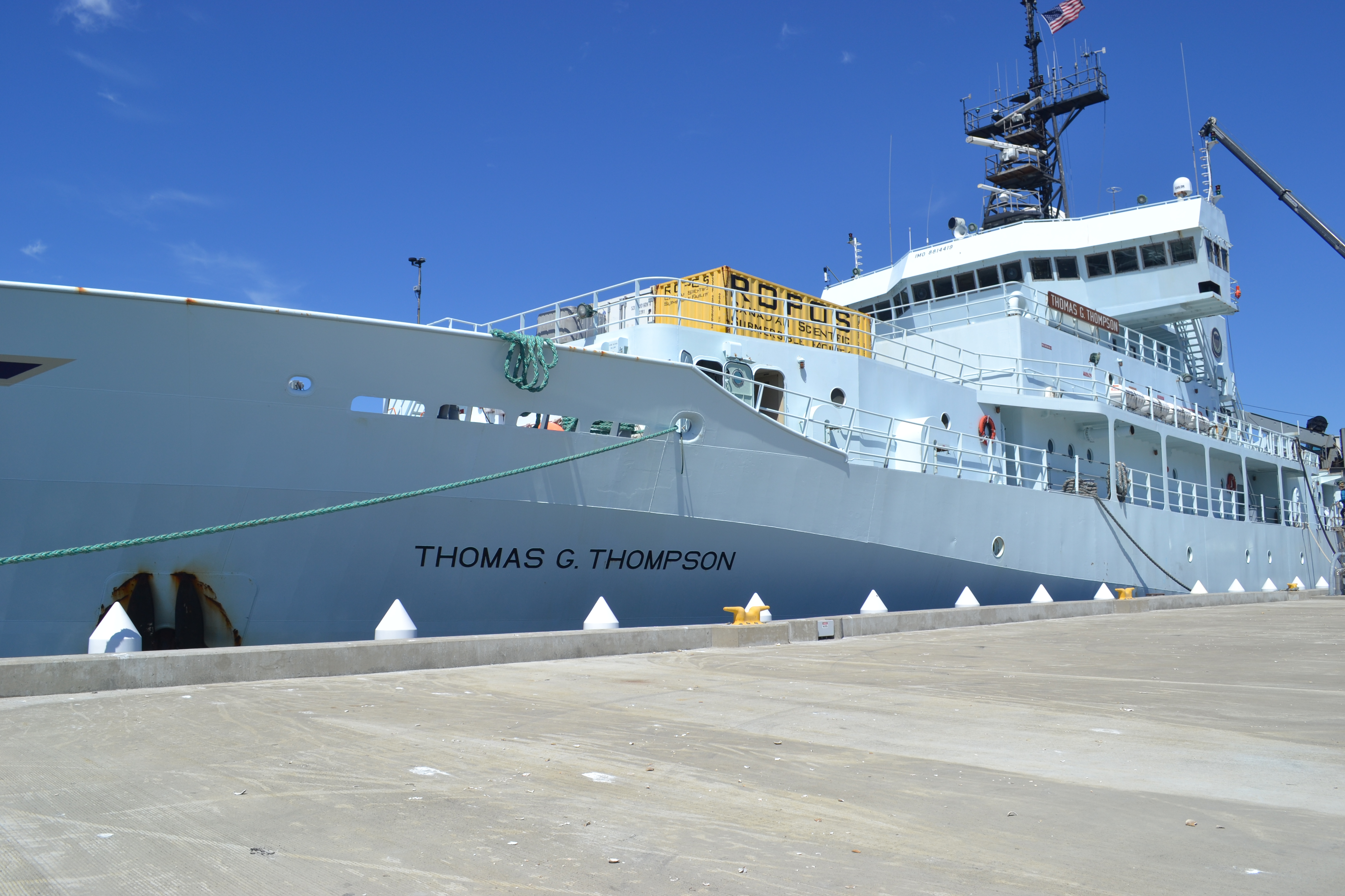 Research Vessel Thomas G. Thompson in Newport